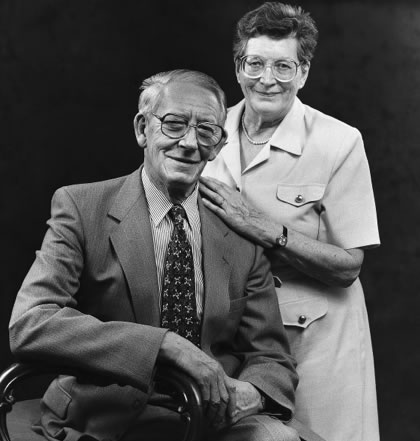 Senator Gordon Wilson with his wife Joan, parents of Marie Wilson who was killed in the Enniskillen bomb, 1990s.